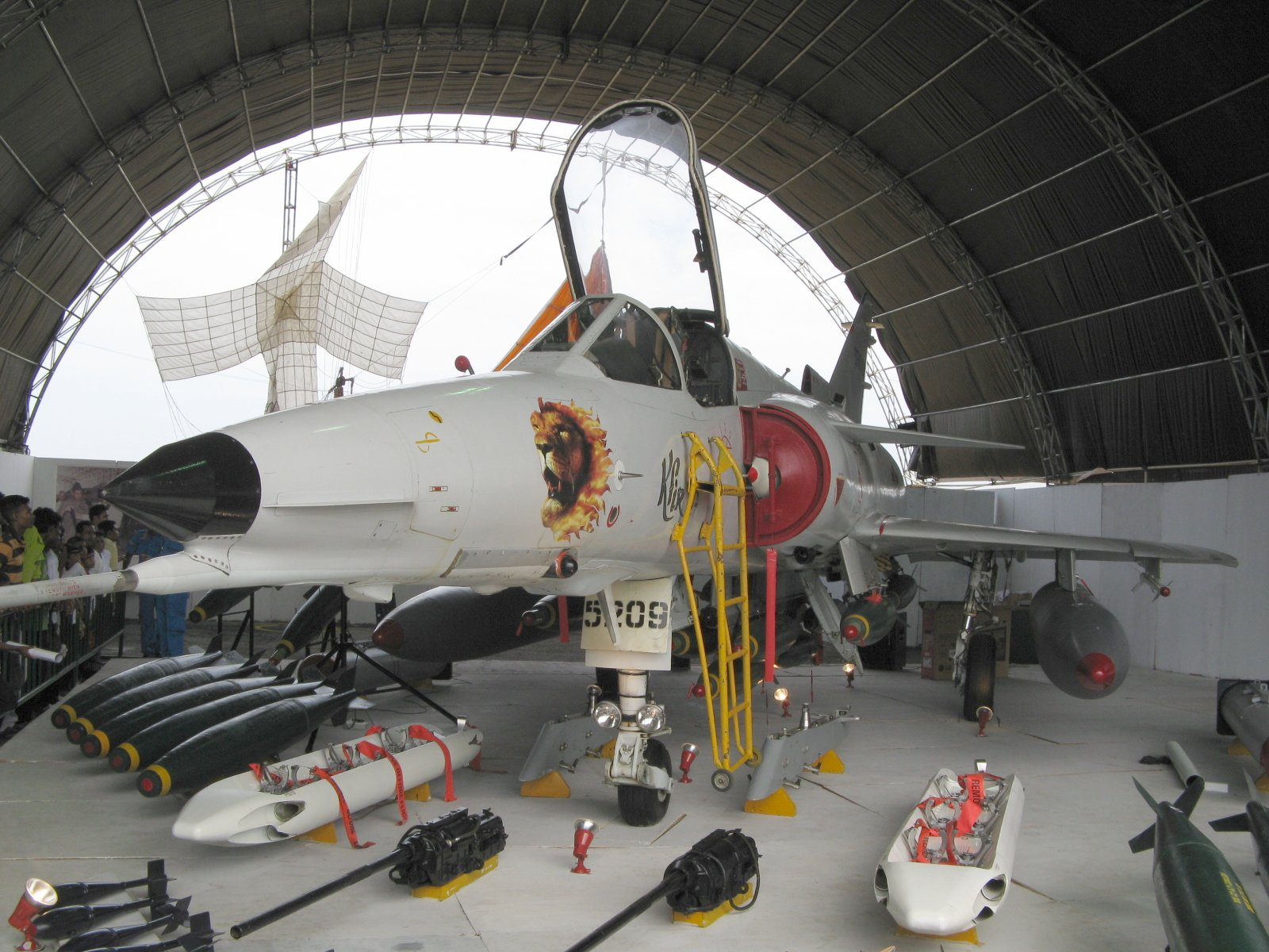 Kfir C2 Fighter-bomber Aircraft - Sri Lanka Air Force